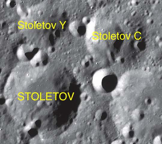 Part of the chart LAC-34 used for the presentation.